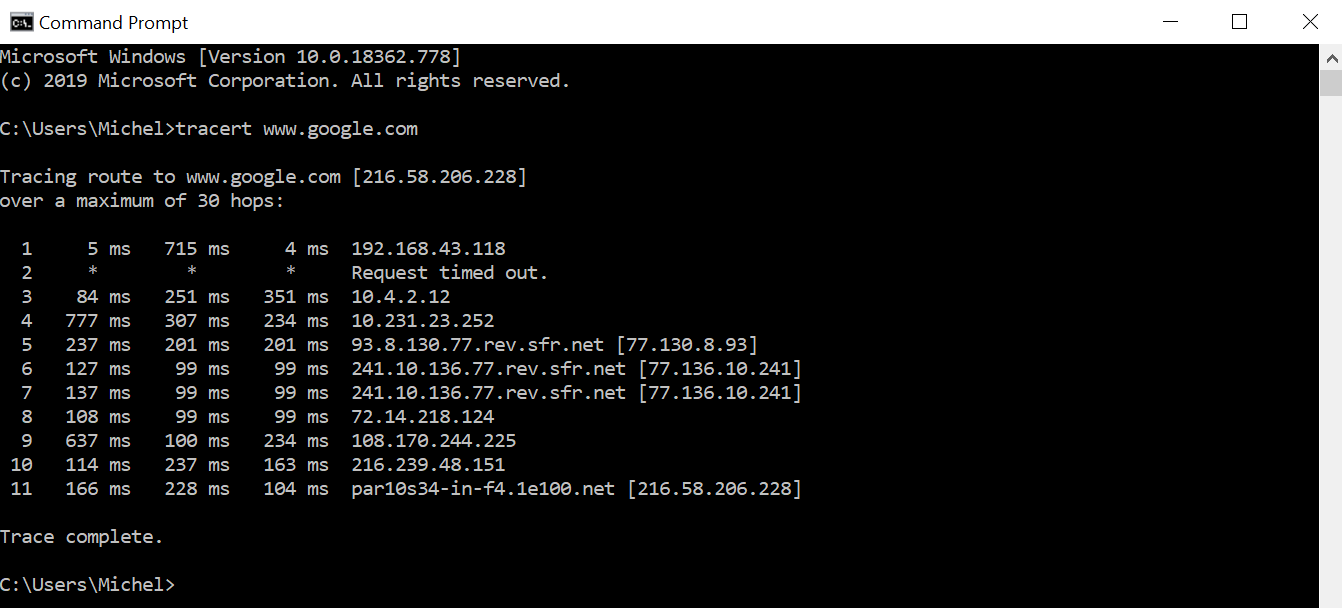 An example of Traceroute utility in DOS.